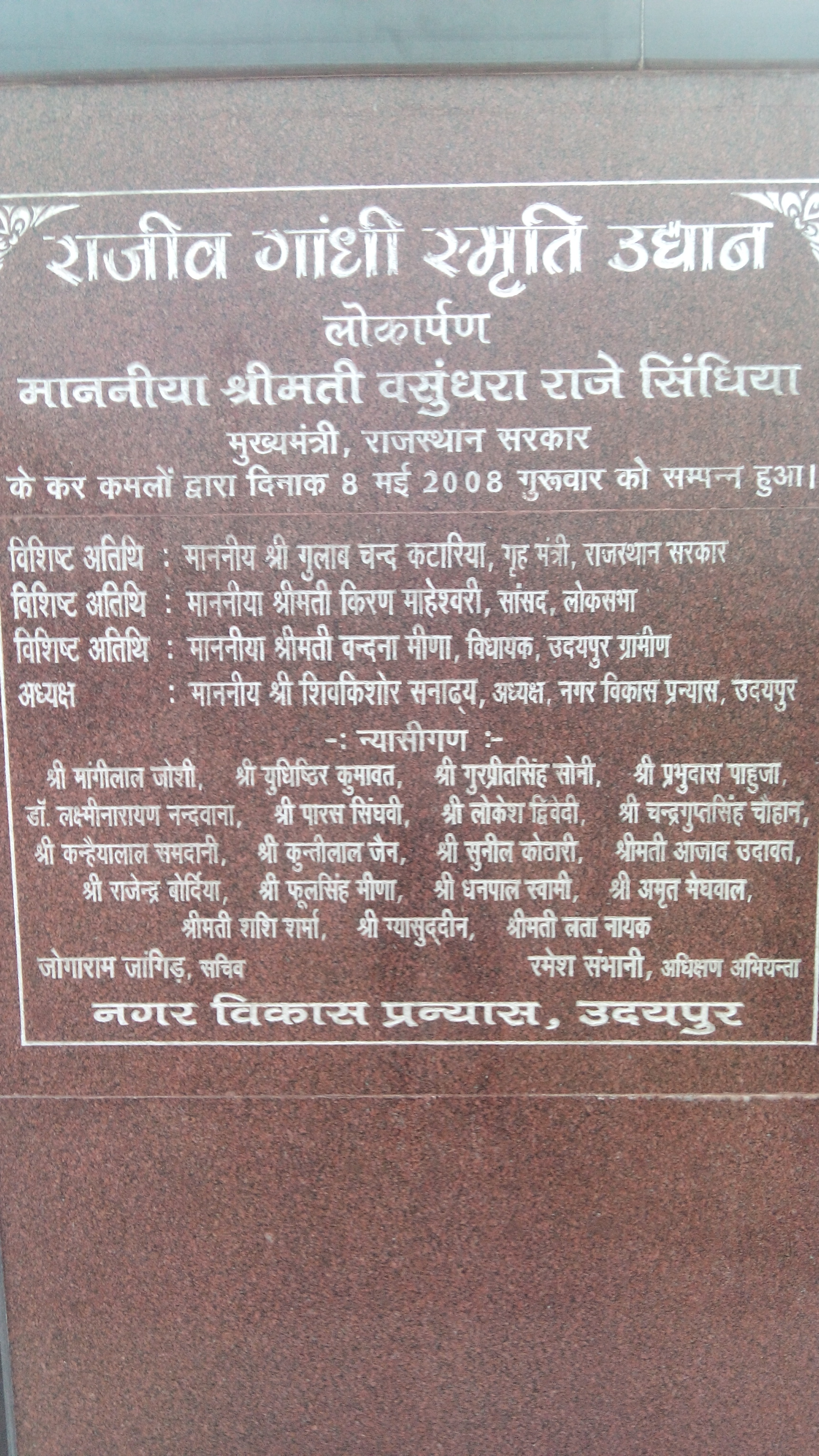 Picture of the inaugural stone placed at the Rajiv Gandhi Garden, showing details about the inauguration dates, and key people involved in the inauguration ceremony.